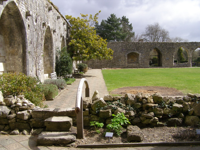 The cloister of Beaulieu Abbey